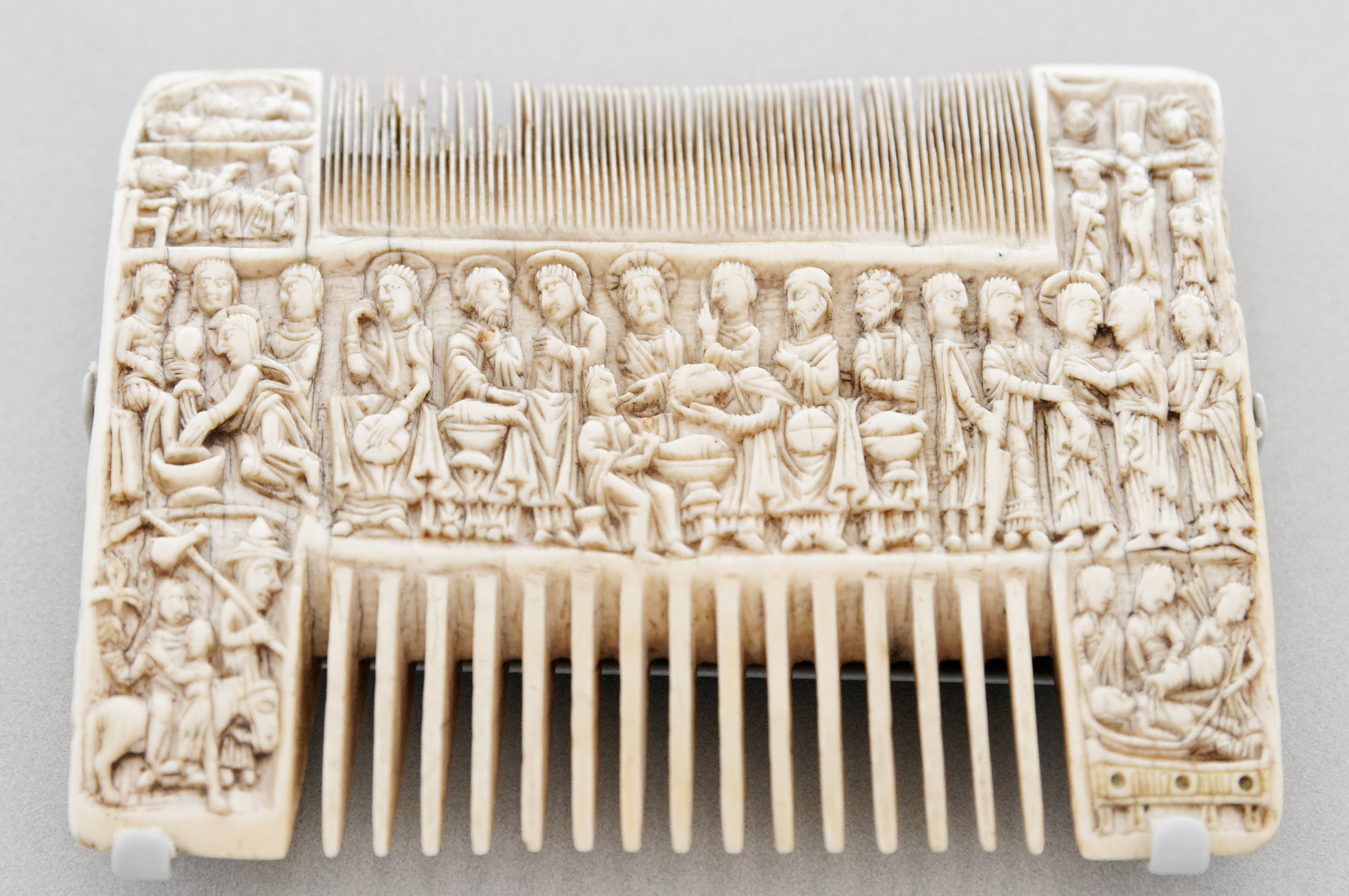 Liturgical comb with scenes of the infancy and Passion of Christ.